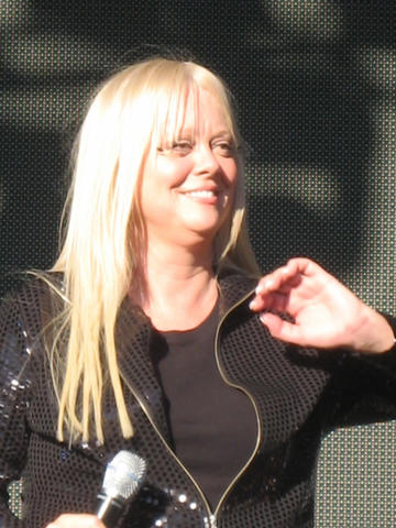 Cindy Wilson from the band The B-52's at the Lovebox festival in London, July 22nd 2007.